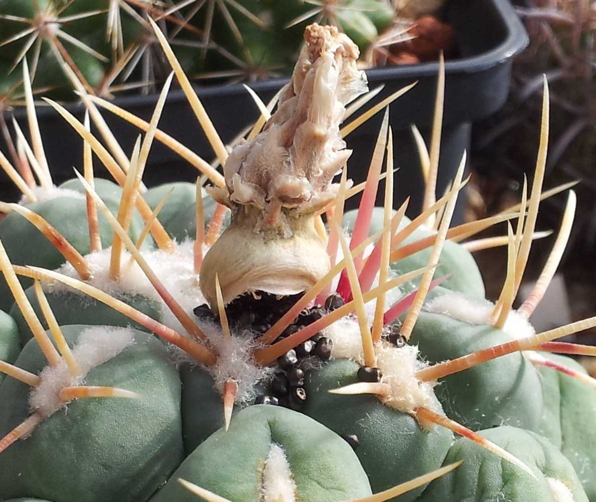 sich öffnende Frucht an Thelocactus hexaedrophorus